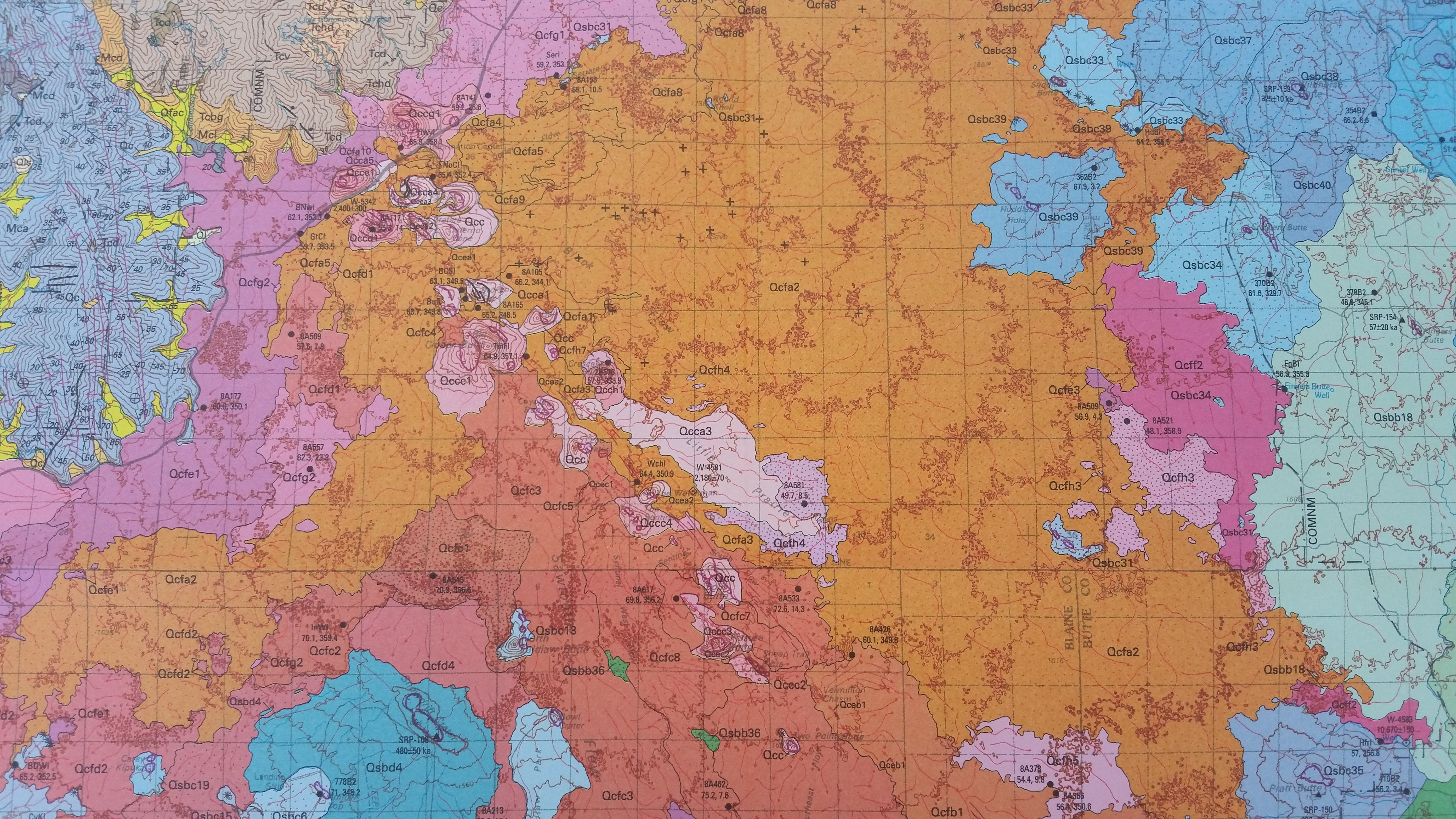 Geologic map of the northern portion of Craters of the Moon. Holocene Blue Dragon pahoehoe and a'a basalt-hawaiite flows-Qcfa2, Holocene to Late Pleistocene cinder cone deposits: Grassy Cone-Qcce1, Sunset Cone-Qccg1, Silent Cone-Qccd1, North Crater-Qcca4, Broken Top-Qcca1, Big Cinder Butte-Qccc1, Crescent Butte-Qcch1, The Watchman-Qcca3, Inferno Cone, Half Cone, and Paisley Cone-Qcc, Fissure Butte-Qccc3, The Sentinel-Qccc4, North Laidlow Butte-Qsbc13, Pleistocene lava fields: Huddles Hole-Qsbc39, Pratt Butte-Qsbc35, Snowdrift Crater-Qsbd4, Holocene-Pleistocene basalt flows: Grassy-Qcfe1, Sunset-Qcfg1, Crescent Butte-Qcfh7, Little Prairie-Qcfh4, Holocene a'a latite flows: Indian Wells North-Qcfc1, Big Cinder Butte NW-Qcfc4, Pleistocene near-vent pyroclastic deposits and basaltic pahoehoe flows-Qsbb36